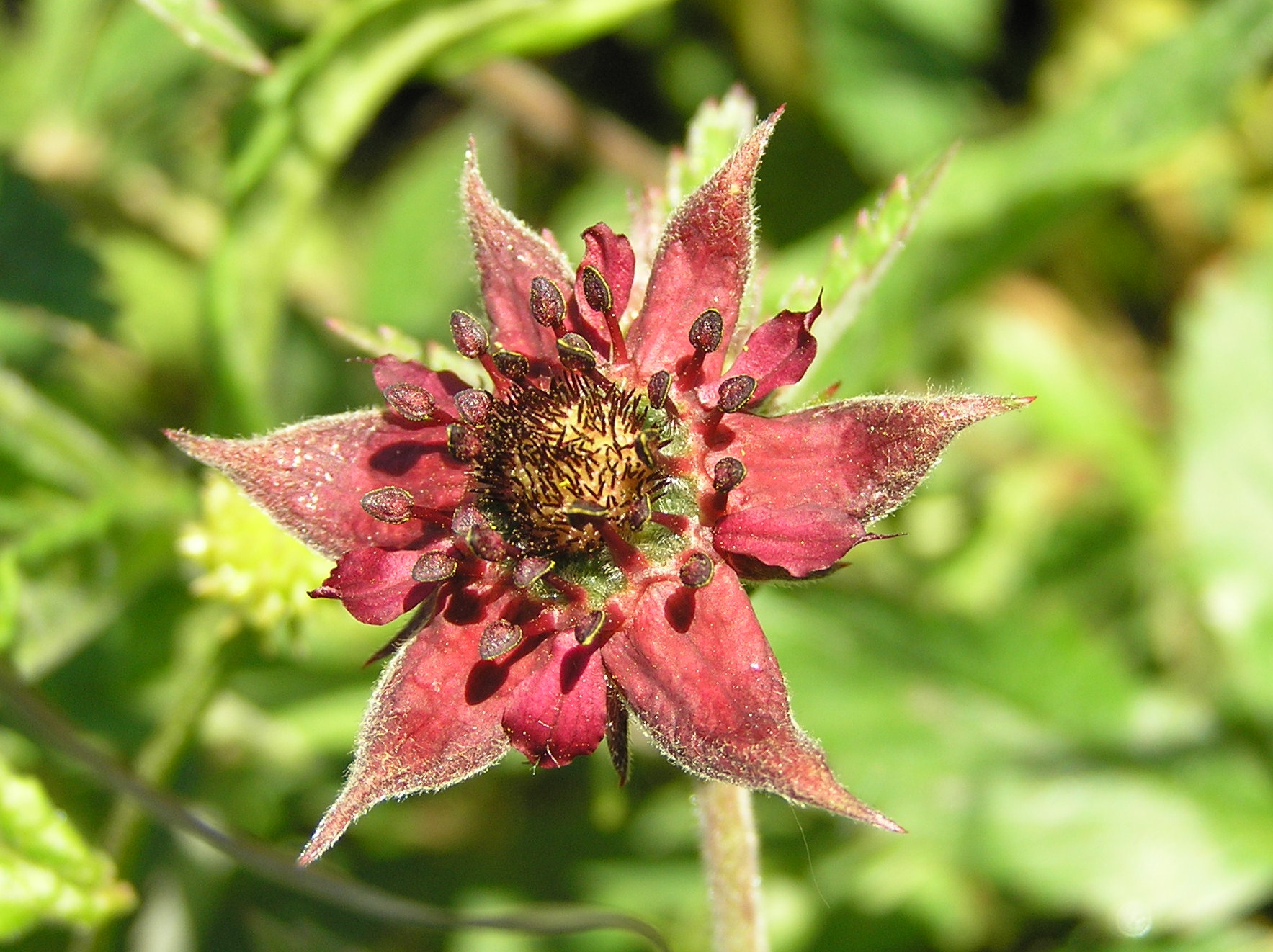 Siedmiopalecznik błotny, Comarum palustre